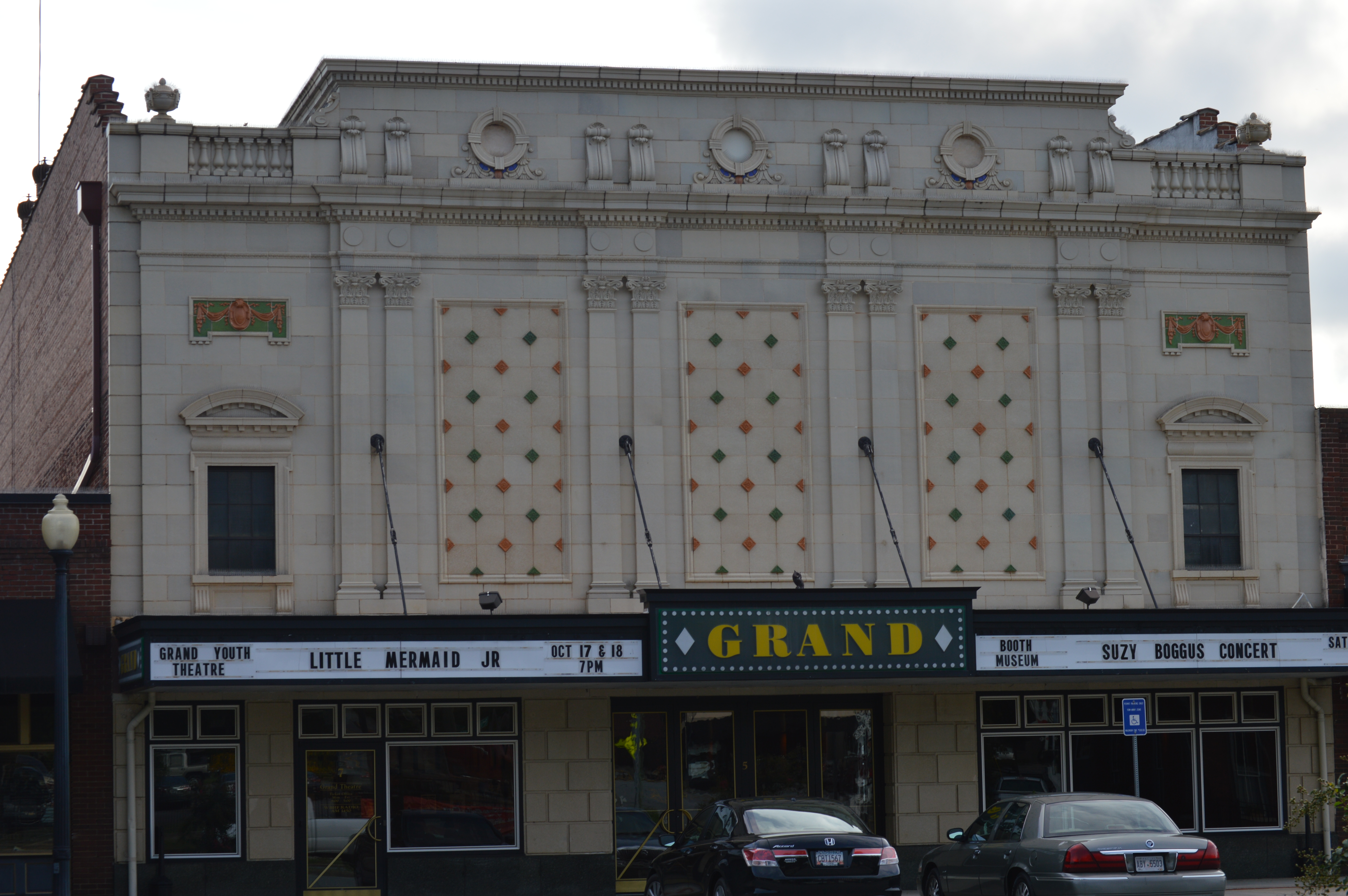 Grand Theater